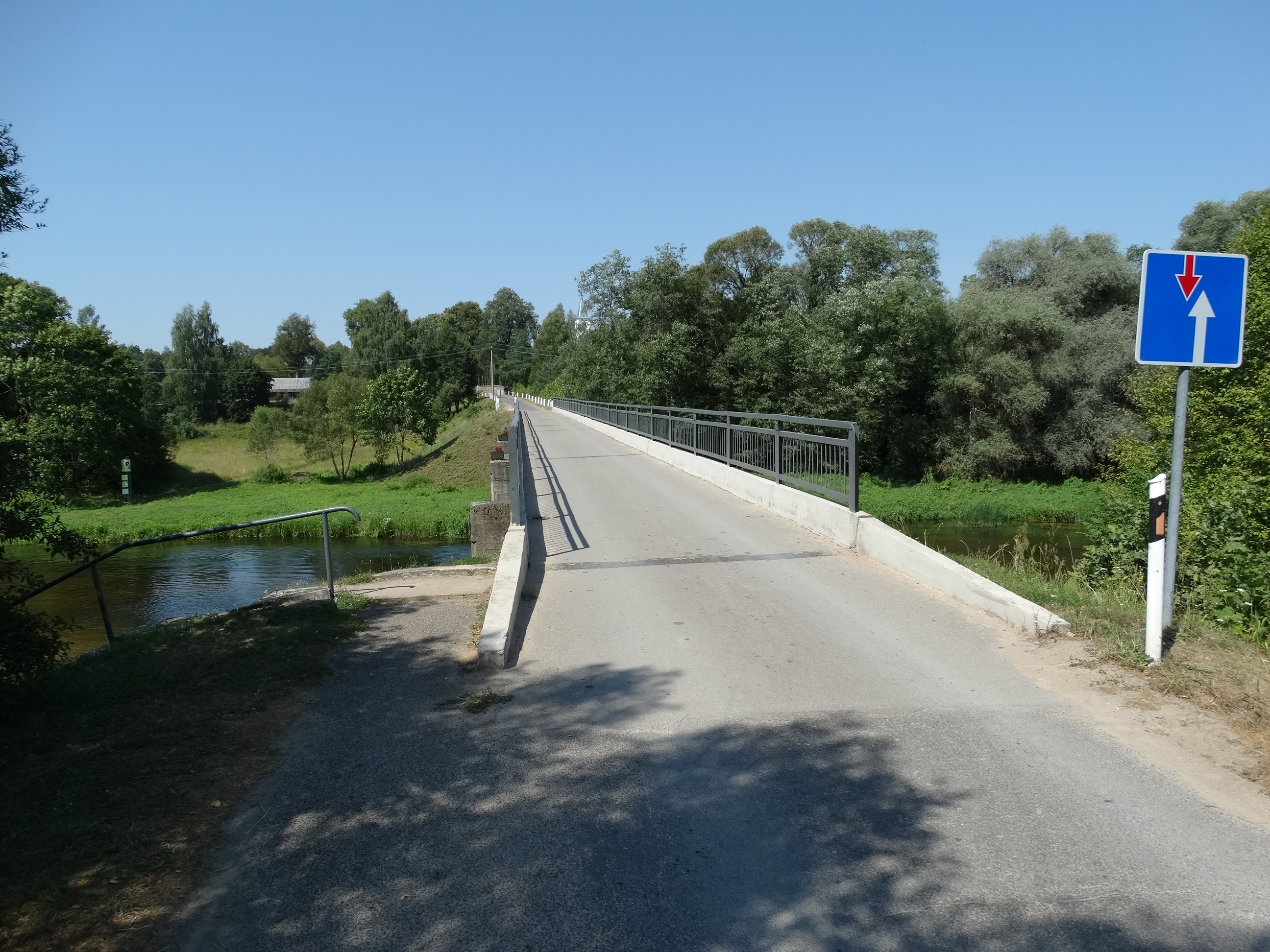 Bridge on Šventoji River, Andrioniškis, Lithuania